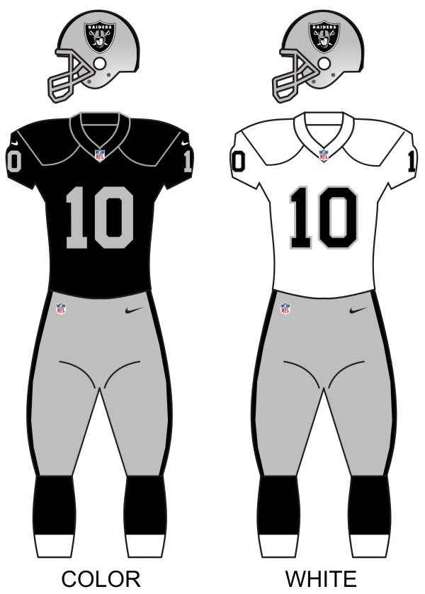 The uniforms of the Las Vegas Raiders.